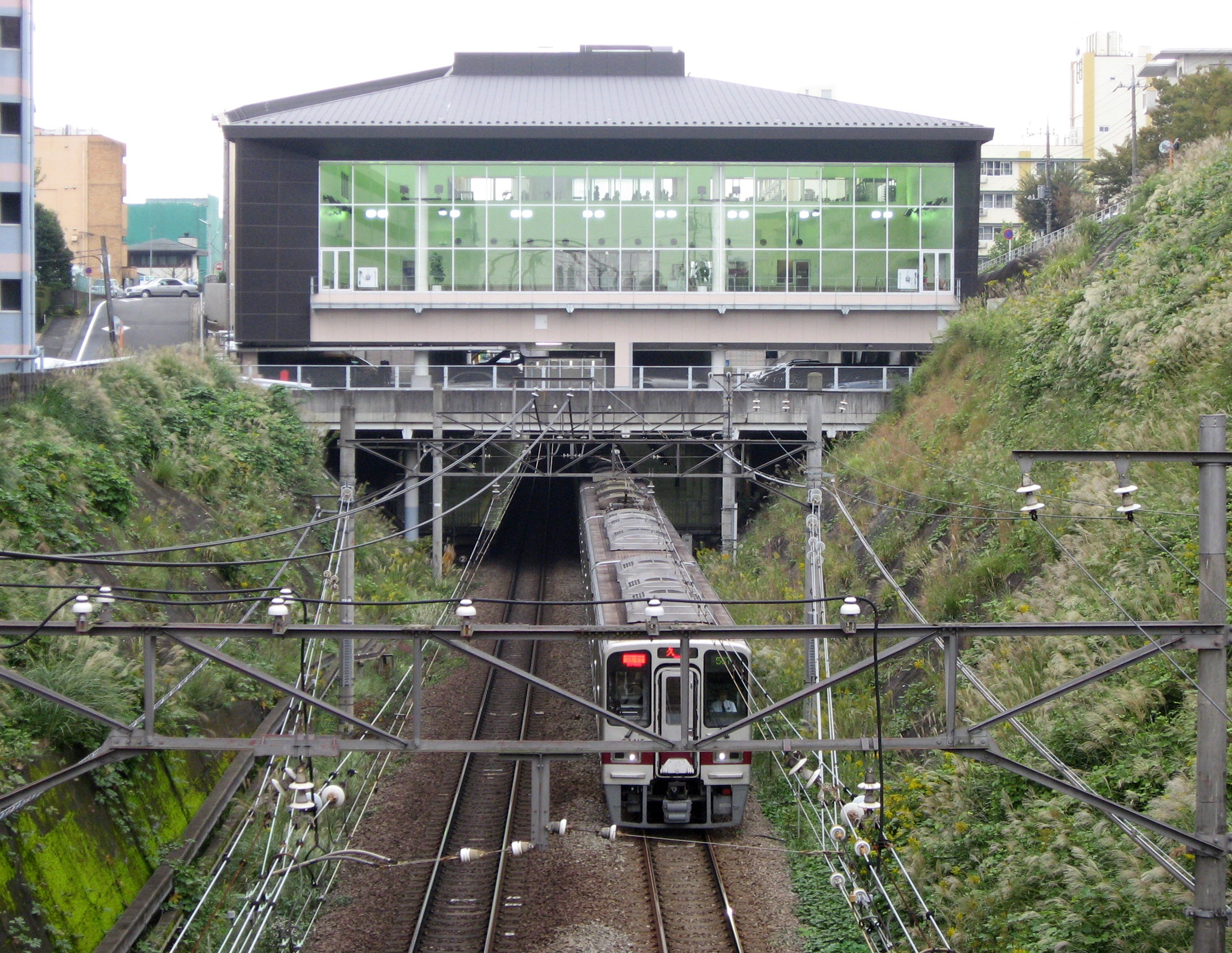 Atrio Due Aobadai in Aoba-ku, Yokohama, Japan.